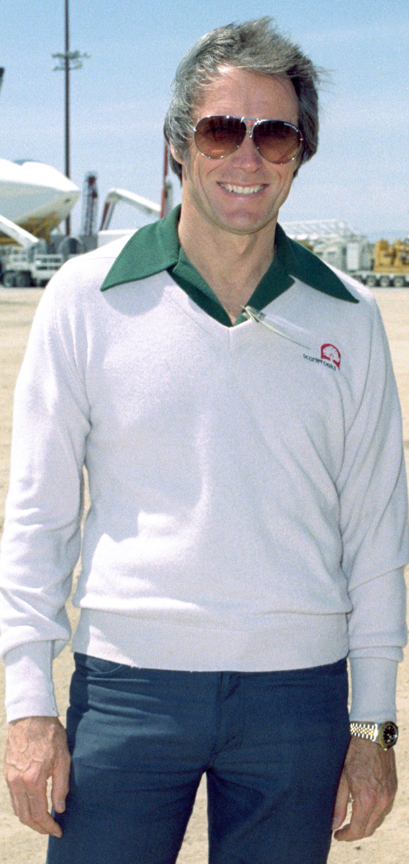 Actor Clint Eastwood near the Space Shuttle Columbia shortly after it had completed its first orbital flight in 1981 -cropped from original